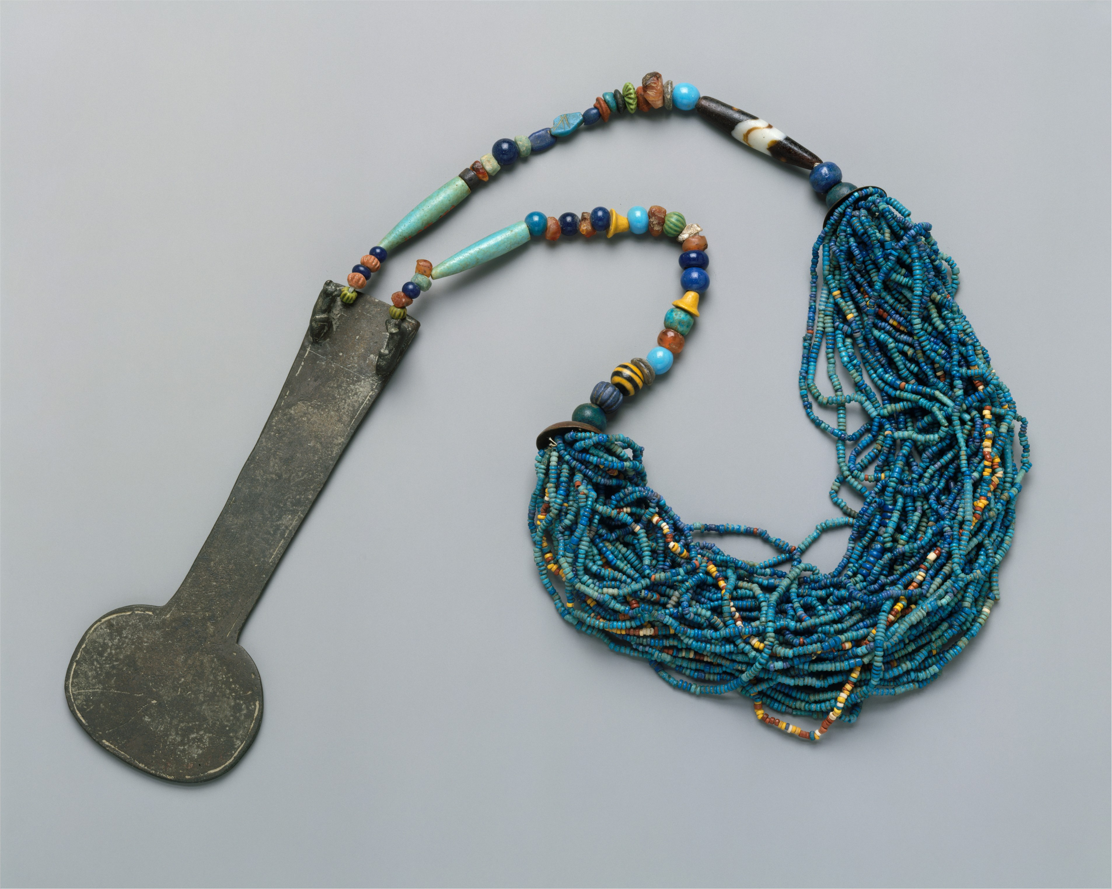 Menat